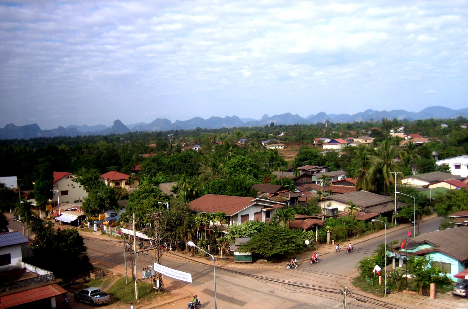 Thakhek, Khammouane Province